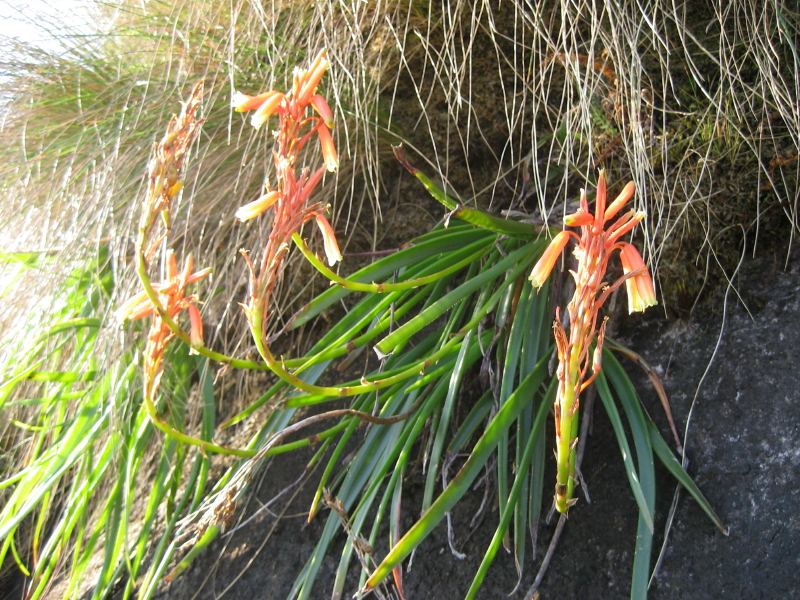 Aloe inyangensis at Mount Gurungue in Manica district, Manica province of Mozambique